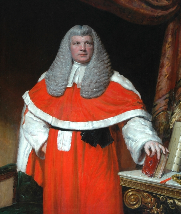 Portrait of Sir John Hullock (1767–1829), English judge.